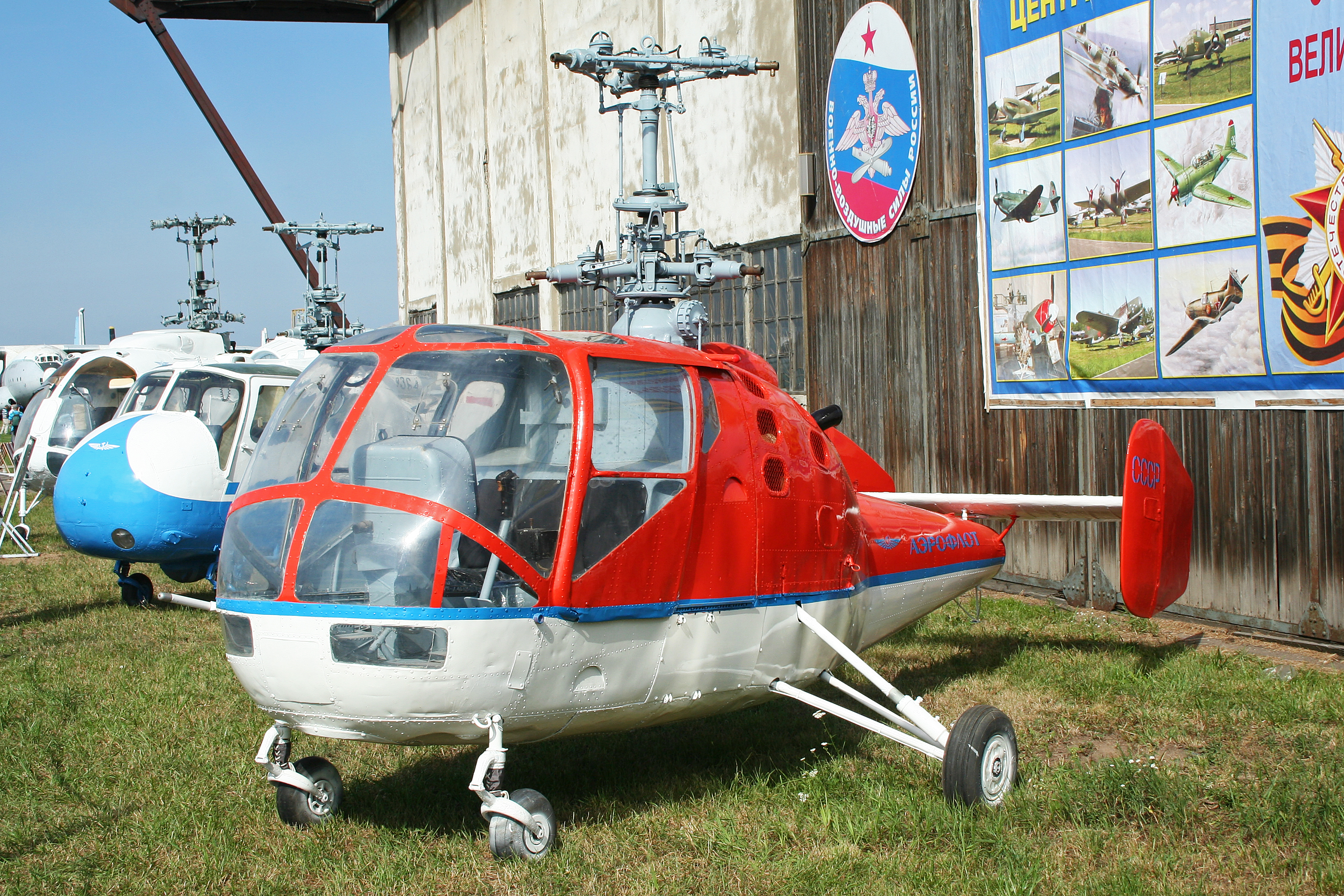 The Ka-15 was a 2-seat utility helicopter designed for the Soviet Navy. The types first flight was in 1952. This unidentified example is on display outside at the Russian Air Force Museum. Monino, Russia. 13-8-2012